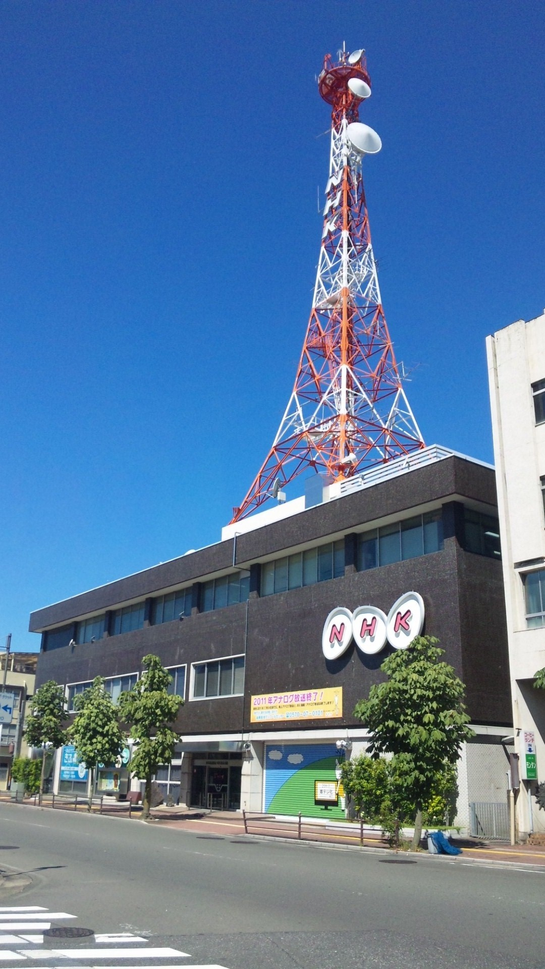 NHK-Gifu